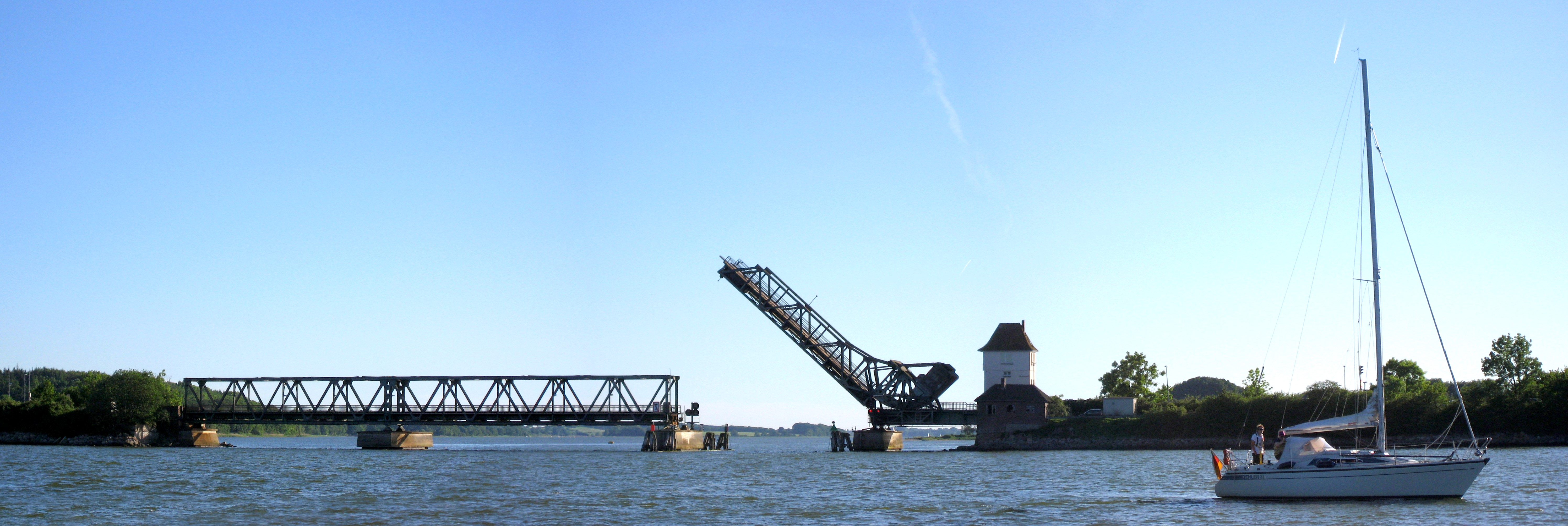 Lindaunis Bridge